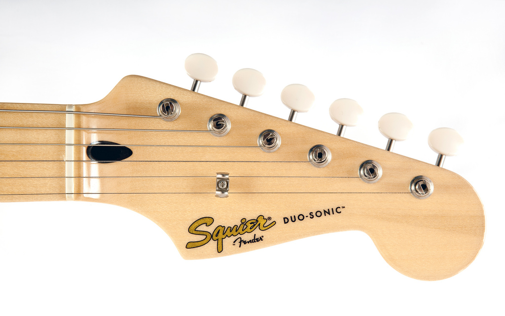 2008 Squier, Classic Vibe, Duo-Sonic electric guitar Headstock